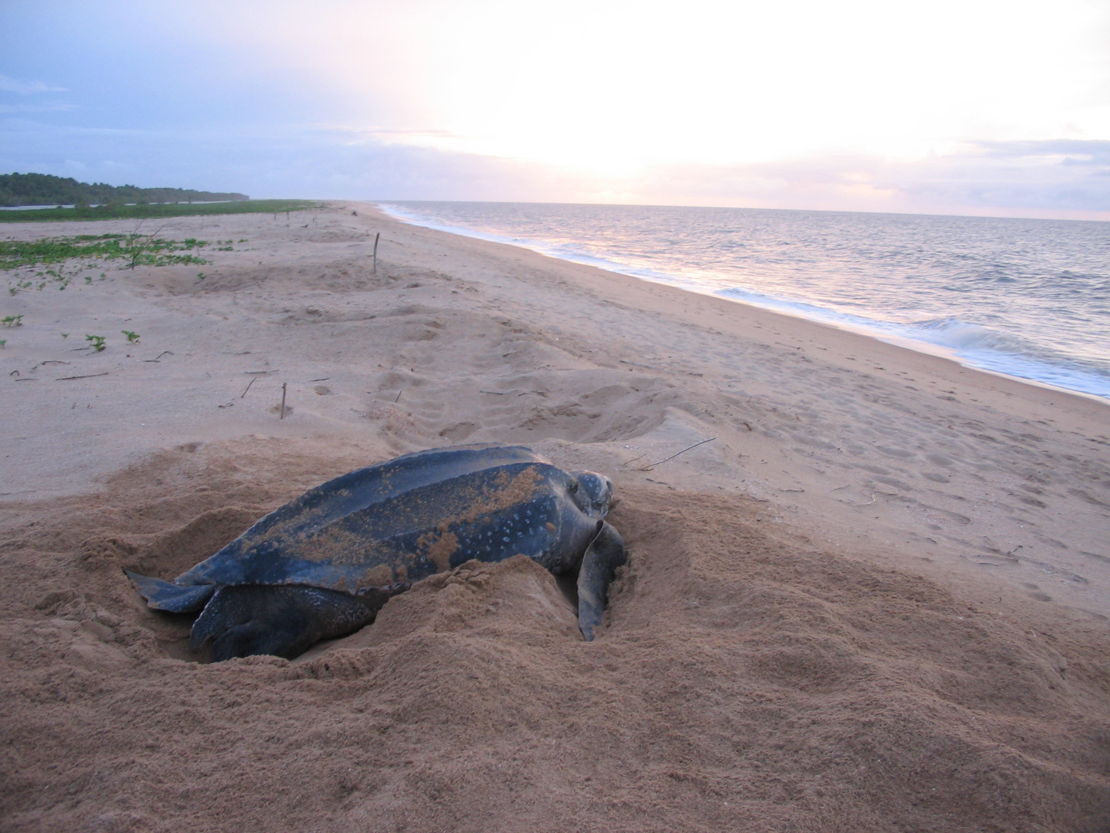 Leatherback Turtle nesting near Galibi, Suriname